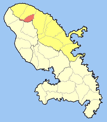 Location of L'Ajoupa-Bouillon within Martinique